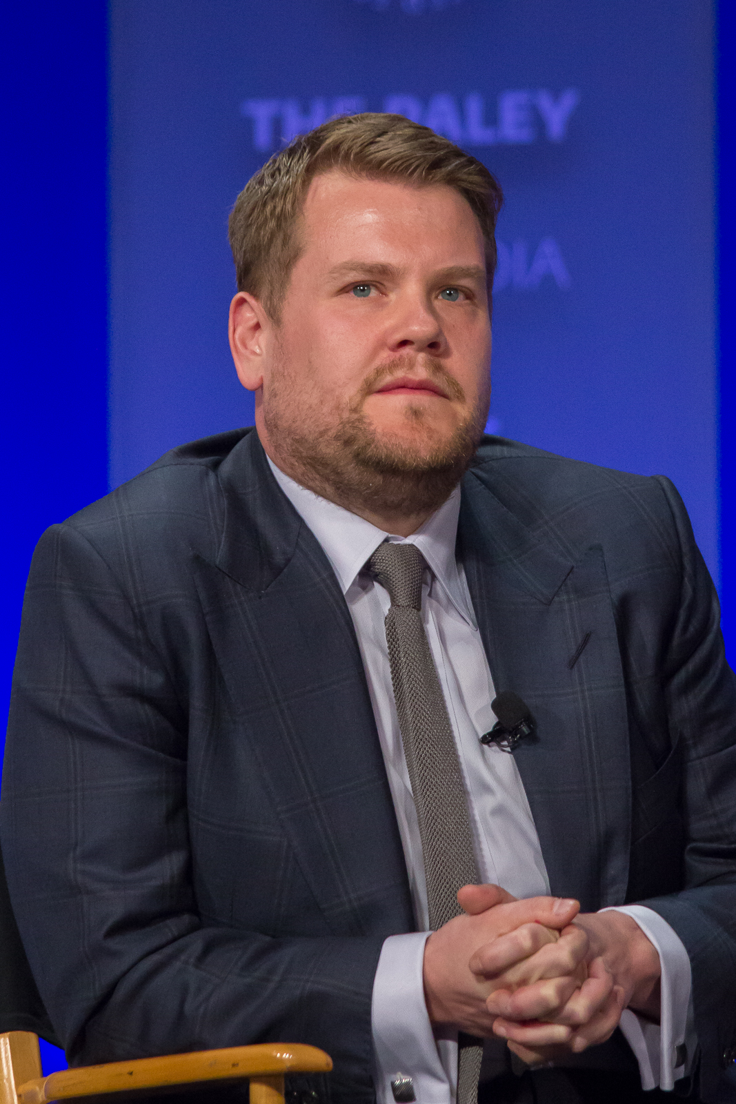 James Corden at the PaleyFest 2015 Panel for The Good Wife